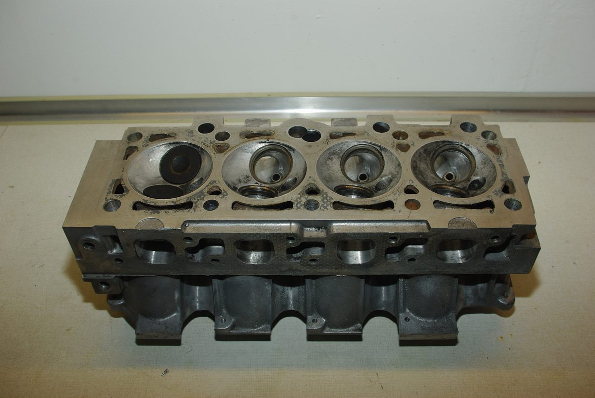 1.6 Ford CVH cylinder head combustion chambers, one with fitted valves